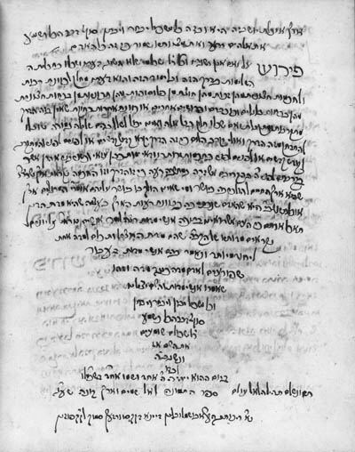 SEFER HA-TEMUNAH (pseudepigraphic kabbalistic work, attributed to Rabbi Ishmael, preceded by Sod Shem ha-Meyuchad). MANUSCRIPT ON PAPER